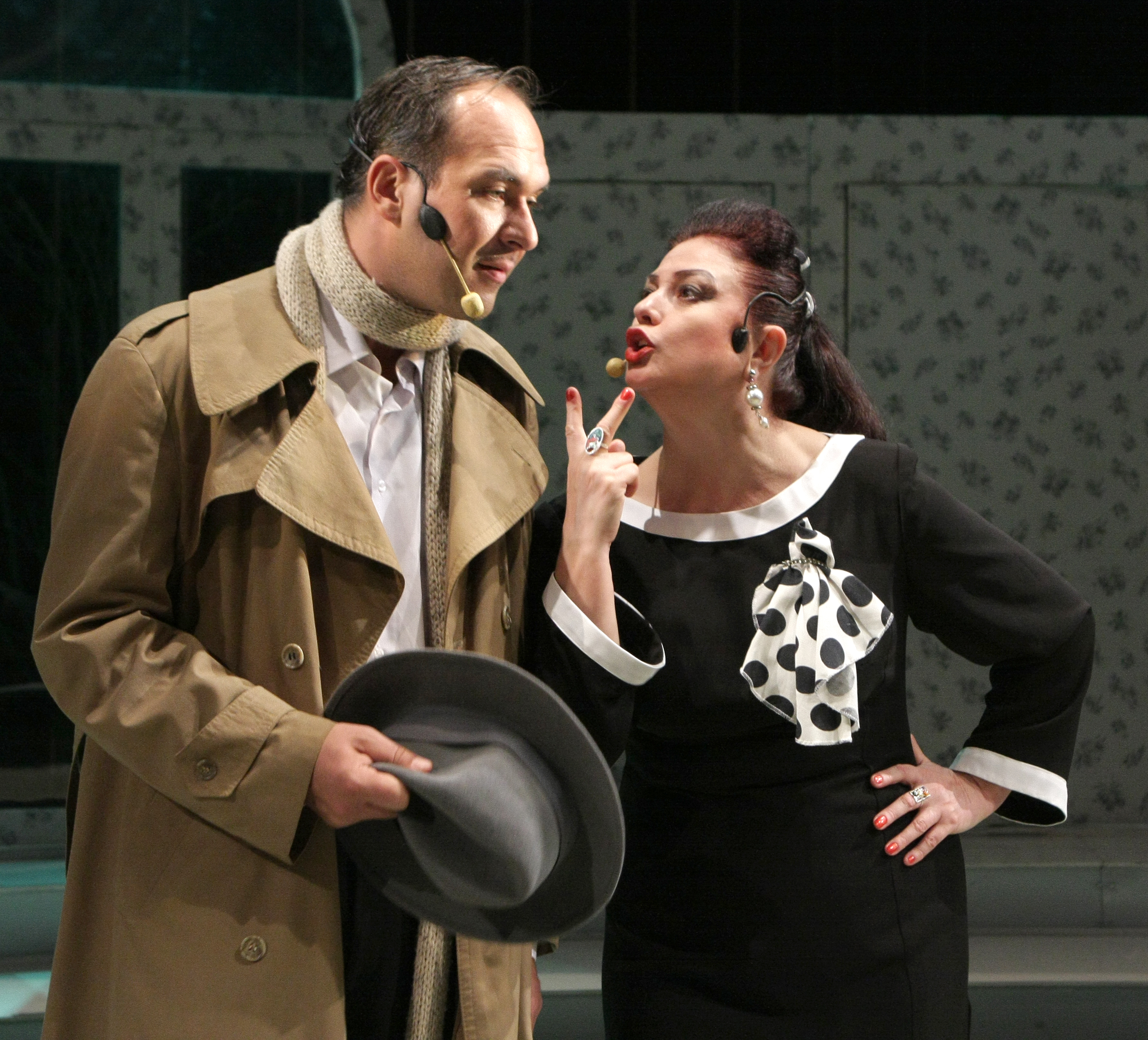 Oleksandr Papusha and Yaroslava Mosiychuk